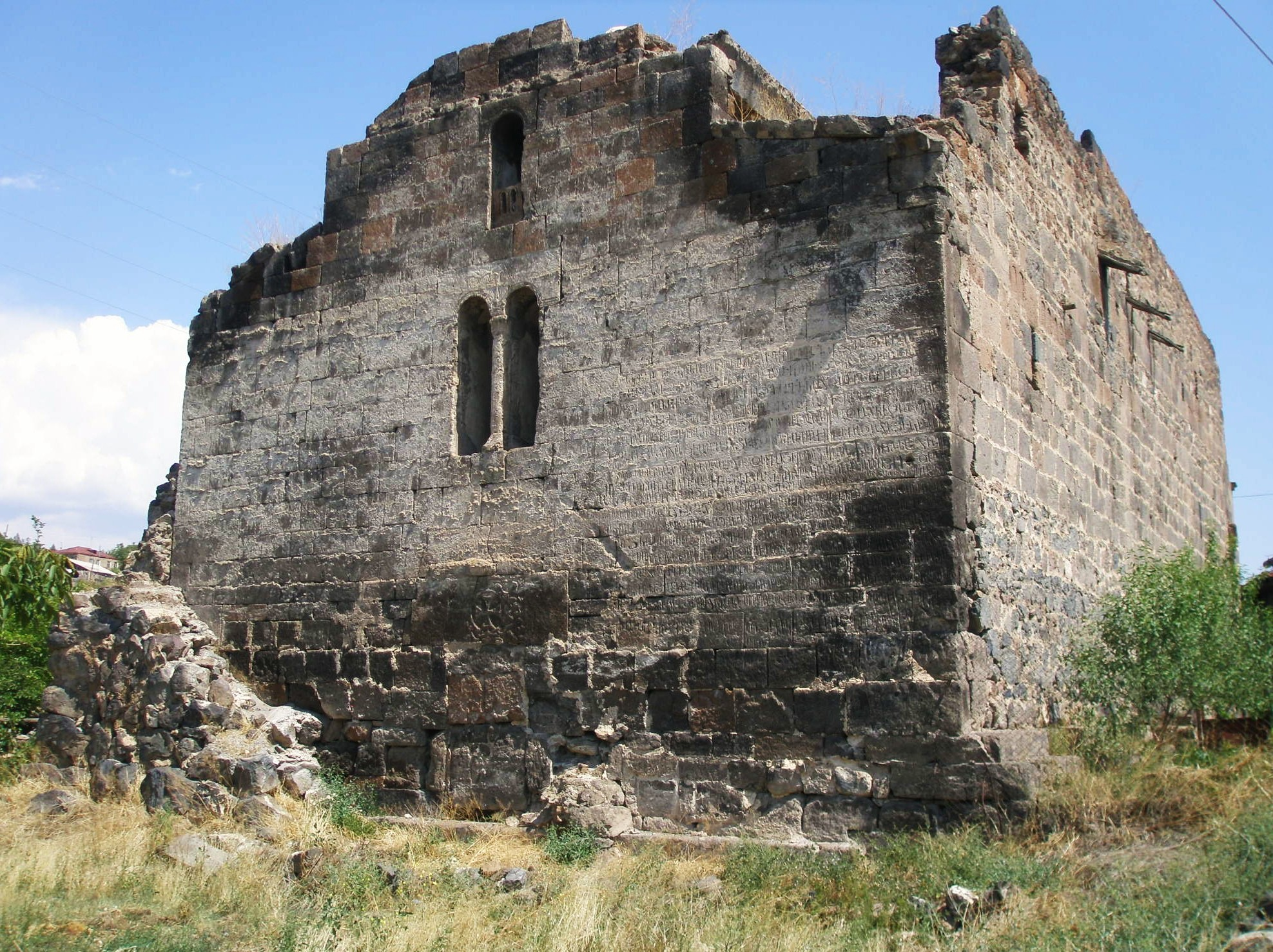 Spitakavor Church of Ashtarak